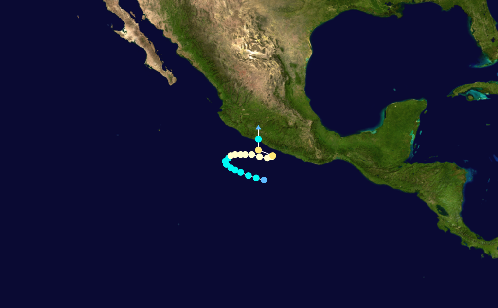 Hurricane Odile (1984) track. Uses the color scheme from the Saffir-Simpson Hurricane Scale.